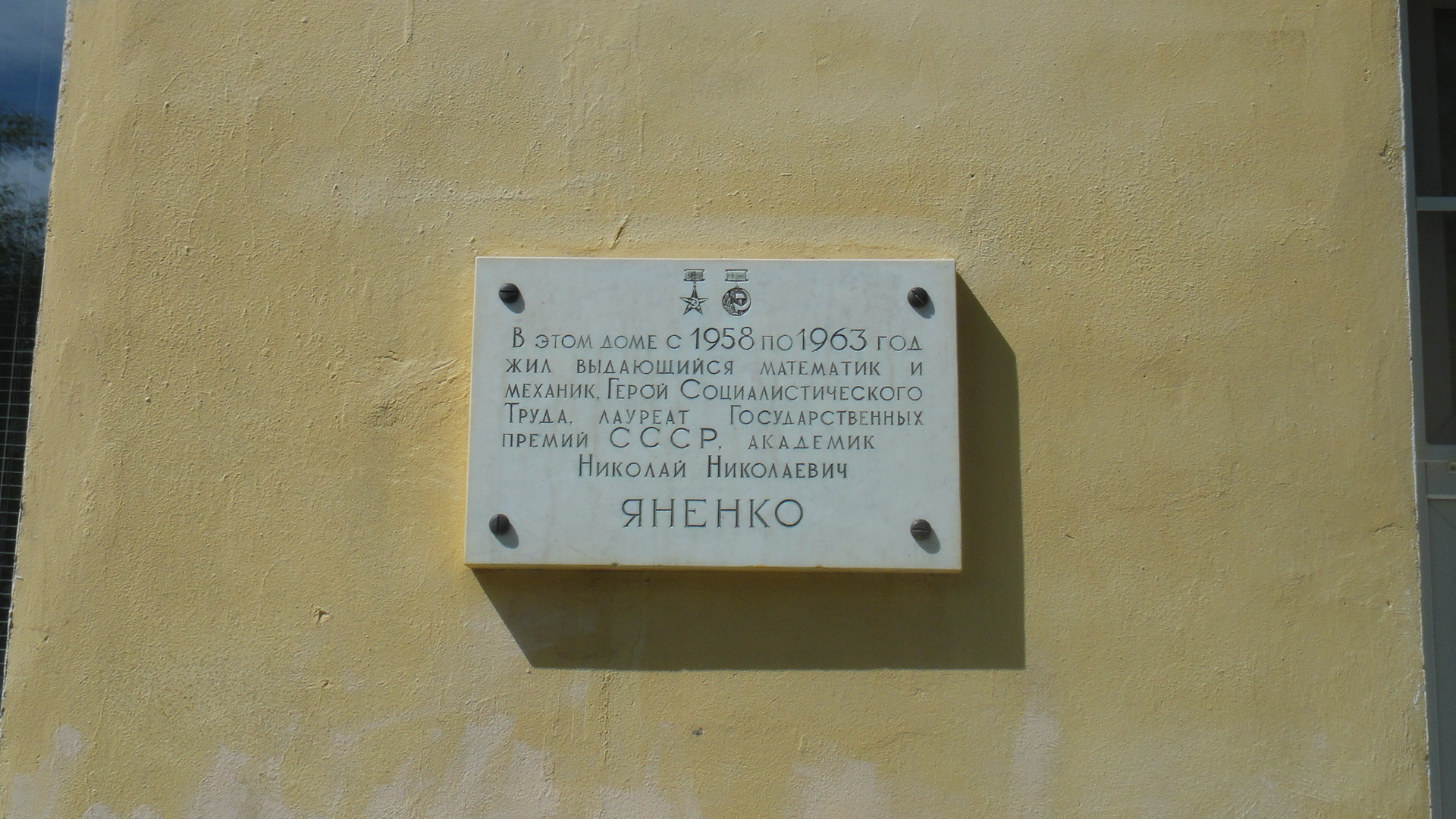 Мемориальная доска Яненко